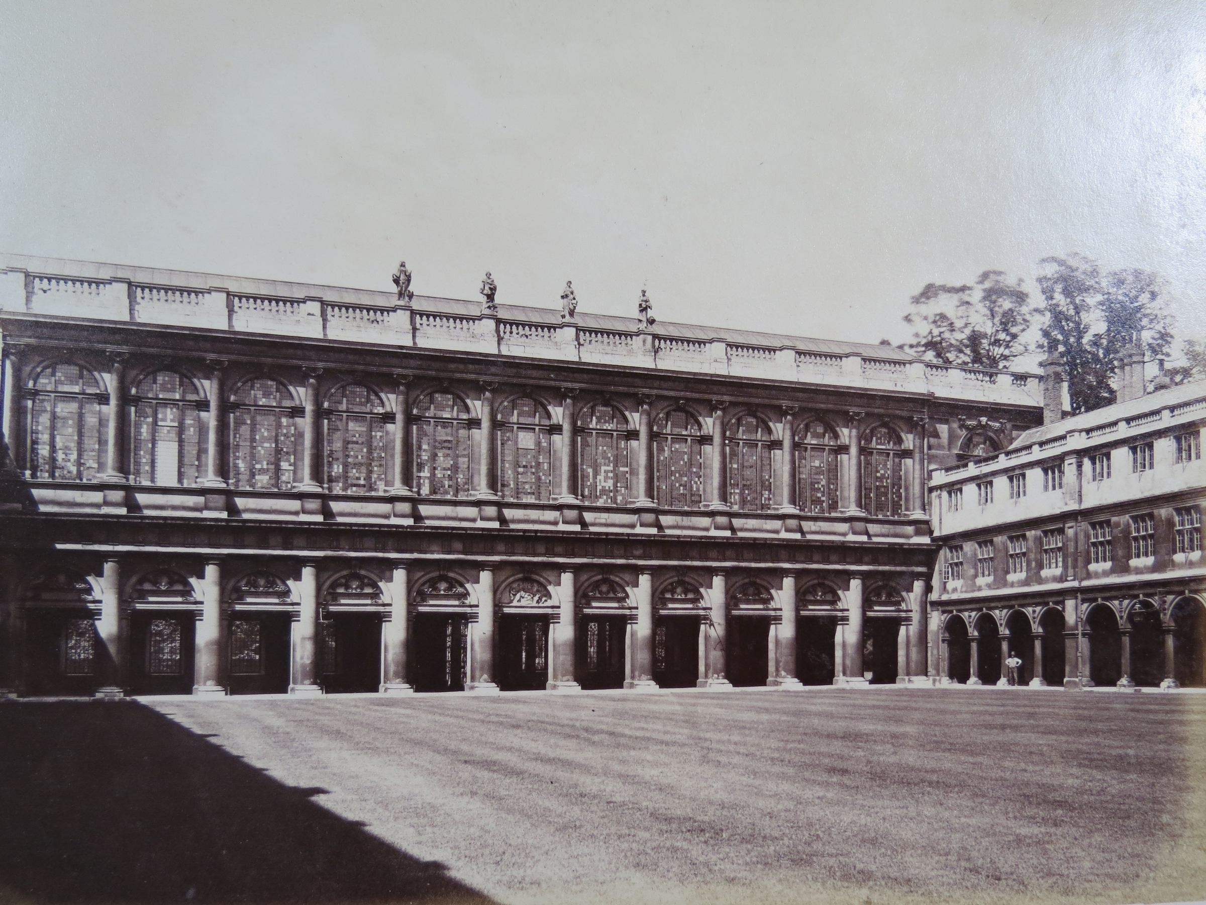 Trinity College, Cambridge University. The Wren Library, in Nevile's Court, circa 1870. Image taken from original albumen print from a bound album of 58 Cambridge University photographs. Original 19th century album in the possession of Kimberly Blaker, New Boston Fine and Rare Books